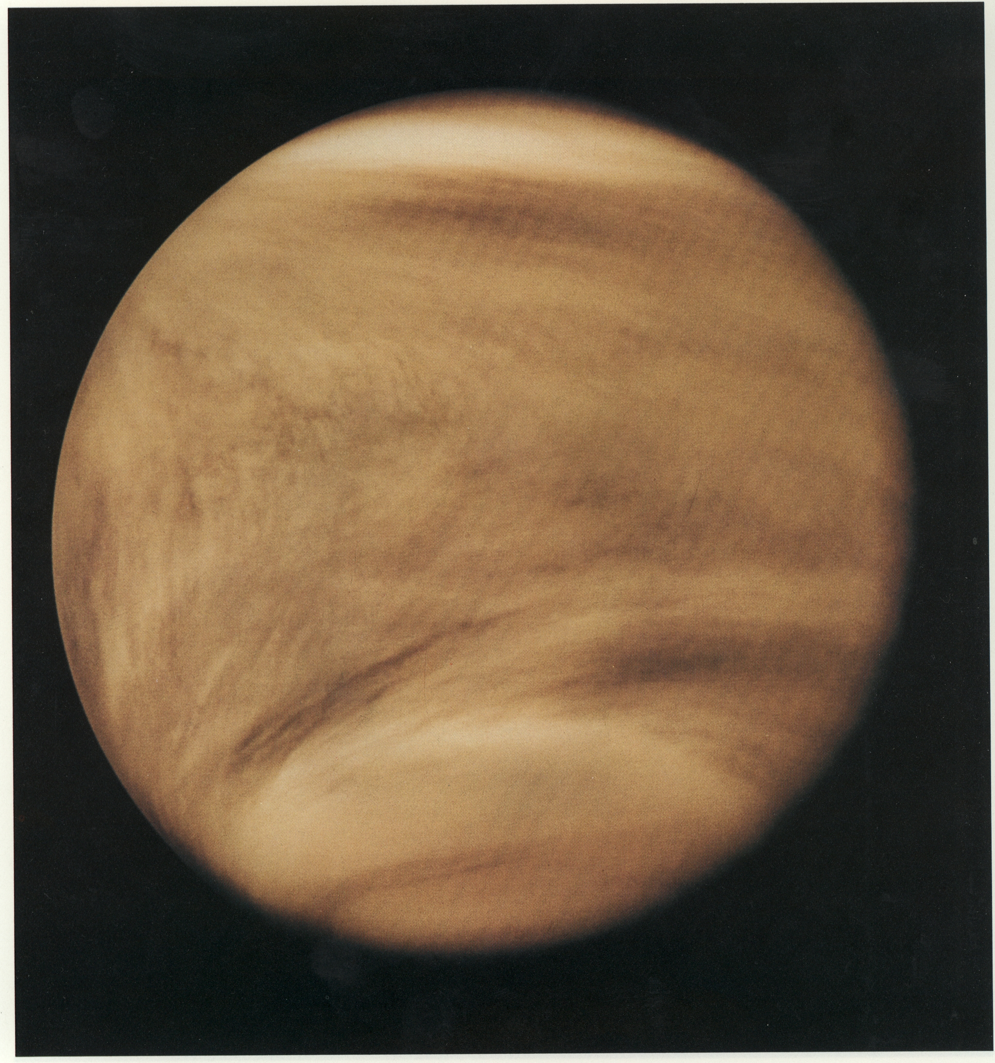 Orginal capiton with the picture: Ultraviolet image of Venus' clouds as seen by the Pioneer Venus Orbiter